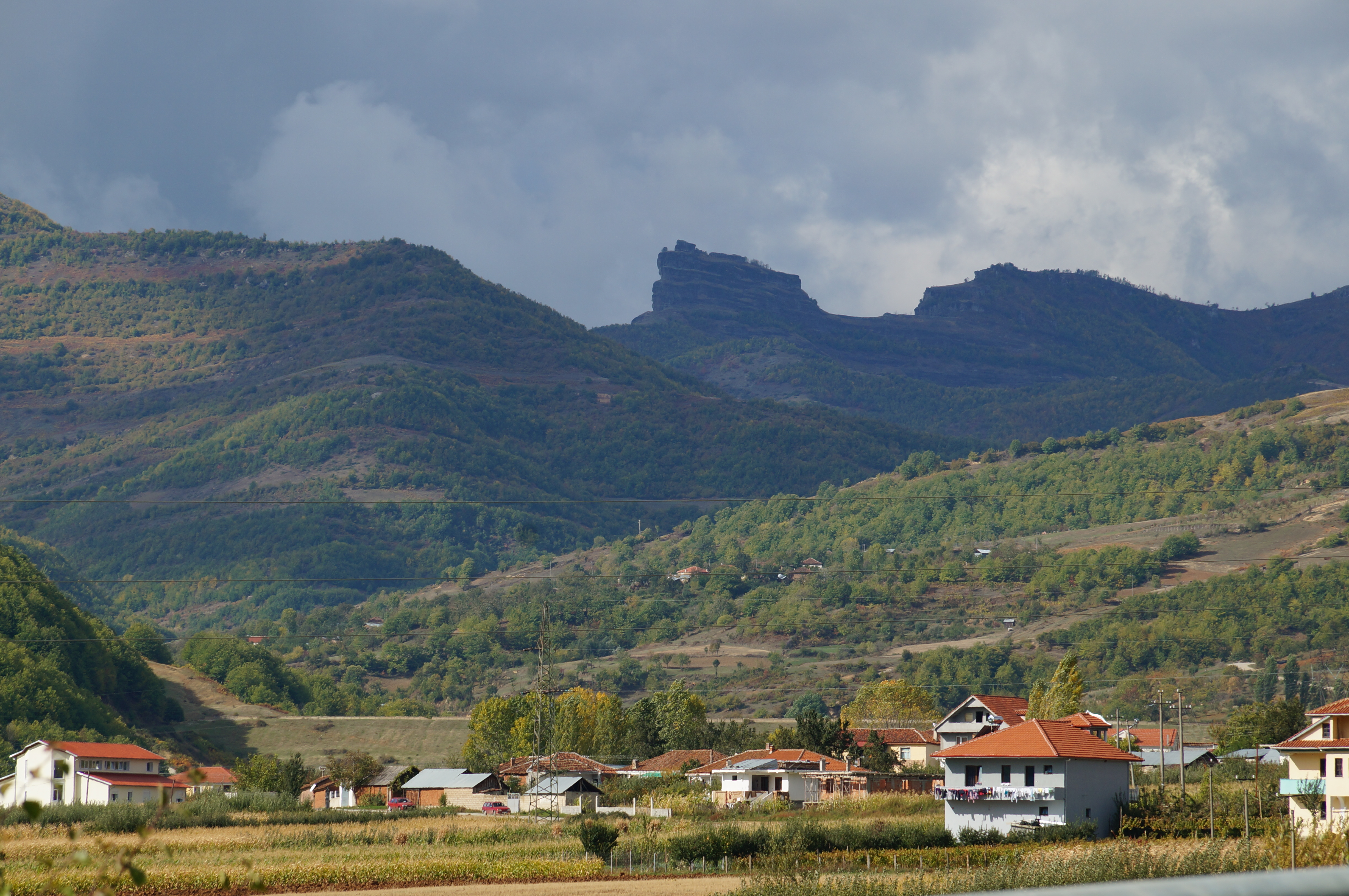 Guri i Kamjes (Kamja-Stone) near Pogradec, Albania – 1461 m